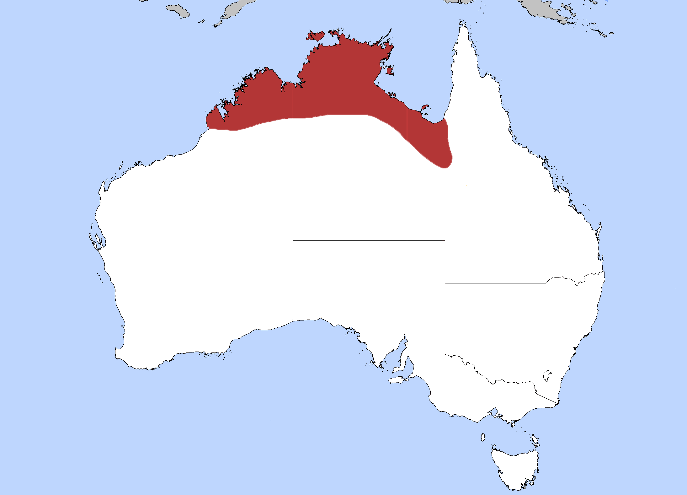 The Range of the Long-tailed Finch